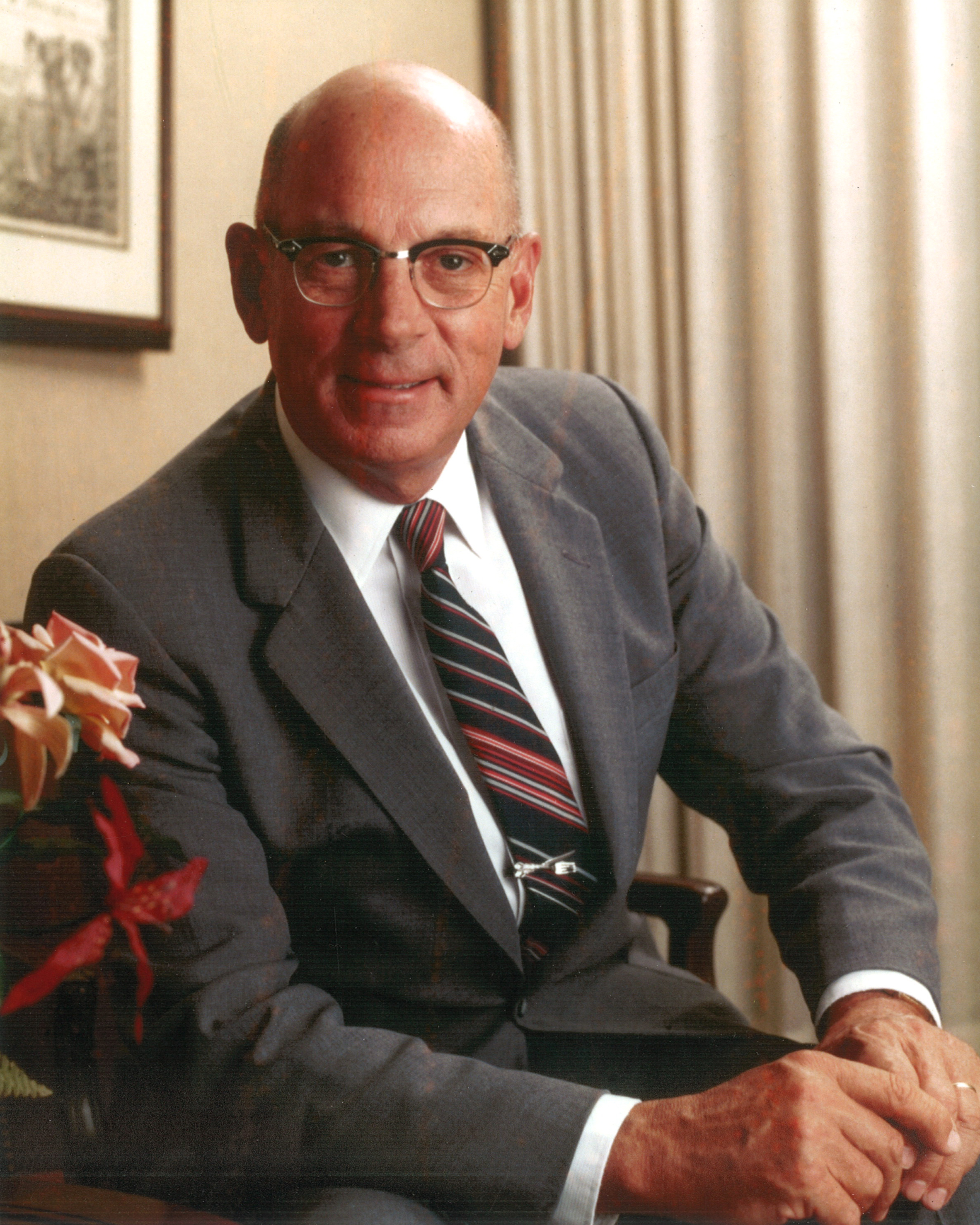 Jim McLamore